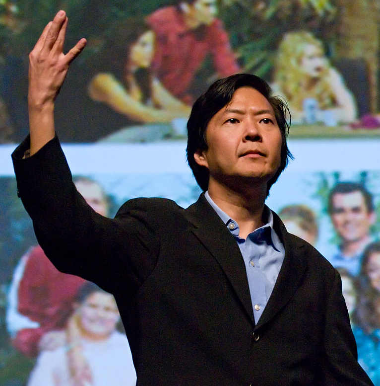 Ken Jeong at a panel for Community at PaleyFest 2010.